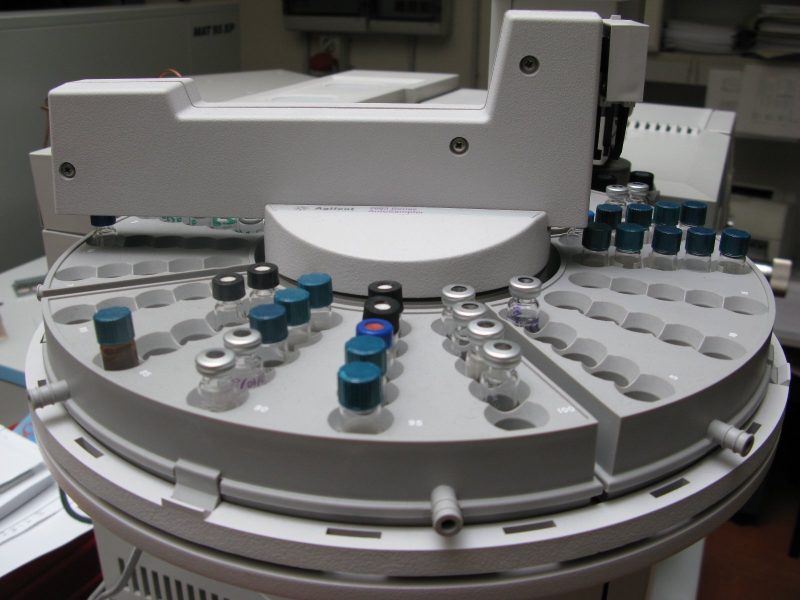 A scientific laboratory of Santa Marta Campus, University Ca' Foscari of Venice.